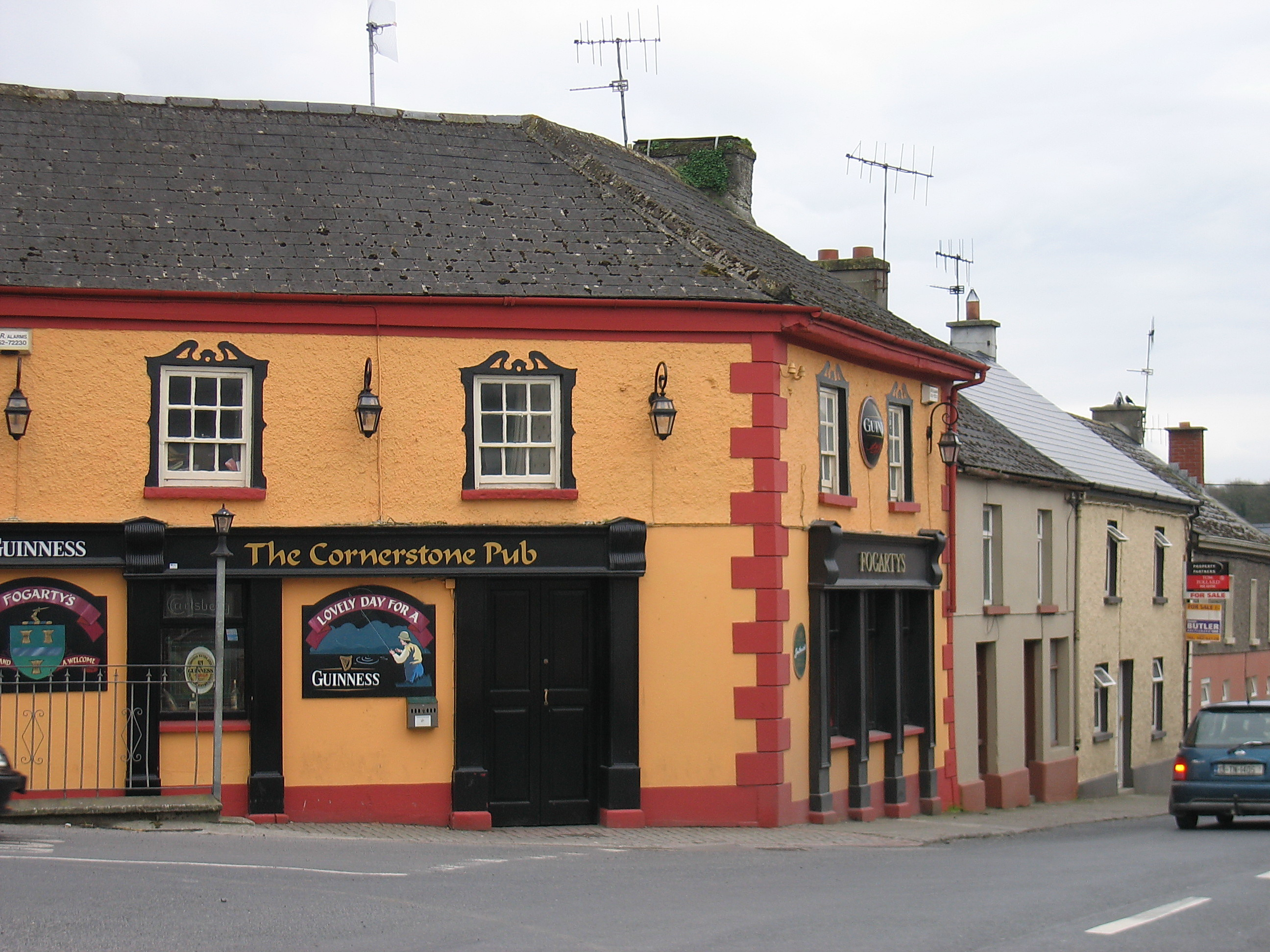 Golden, County Tipperary